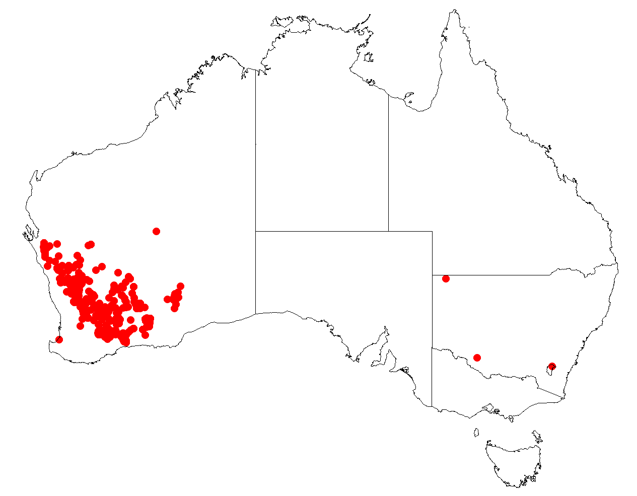 Allocasuarina acutivalvis occurrence data from Australasian Virtual Herbarium download 4 July 2018